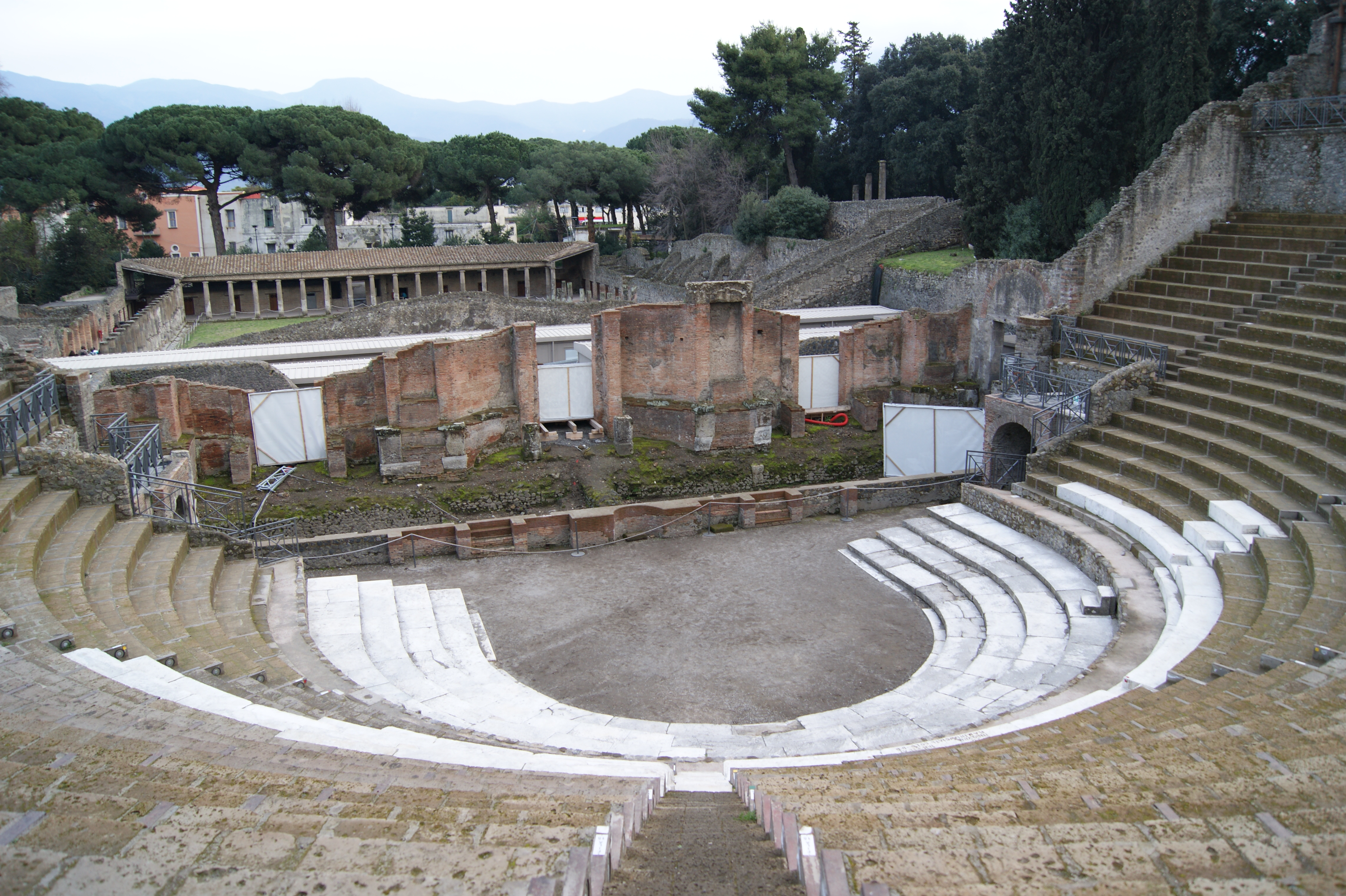 The theatre of Pompeii (Italy).